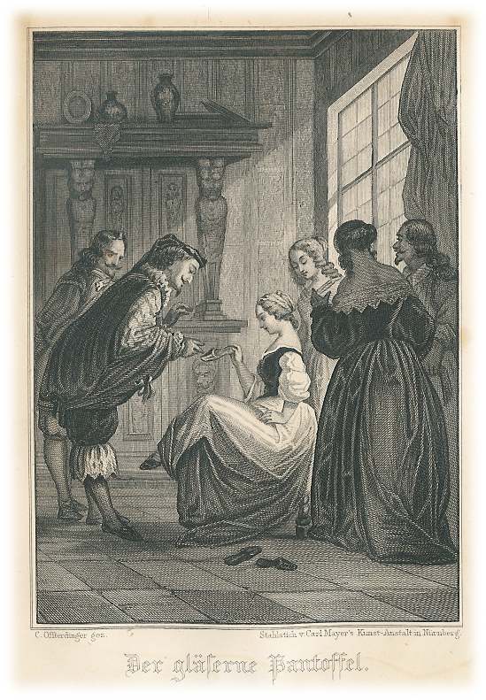 Illustration from August von Platens play "Der gläserne Pantoffel".